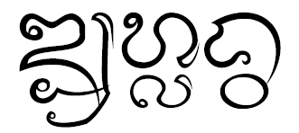 Lanna-Doi Luang